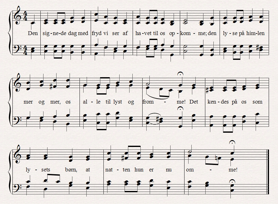 Tune and first stanza of the Danish hymn 'Den signede dag med fryd vi ser'. Lyrics by N. F. S. Grundtvig (1826) and music by C. E. F. Weyse (1826). The file is made with the program Sibelius 6.